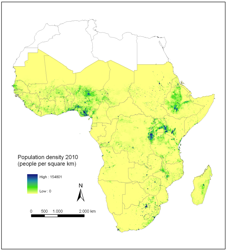 The alpha population distribution dataset produced by the AfriPop Project for 2010